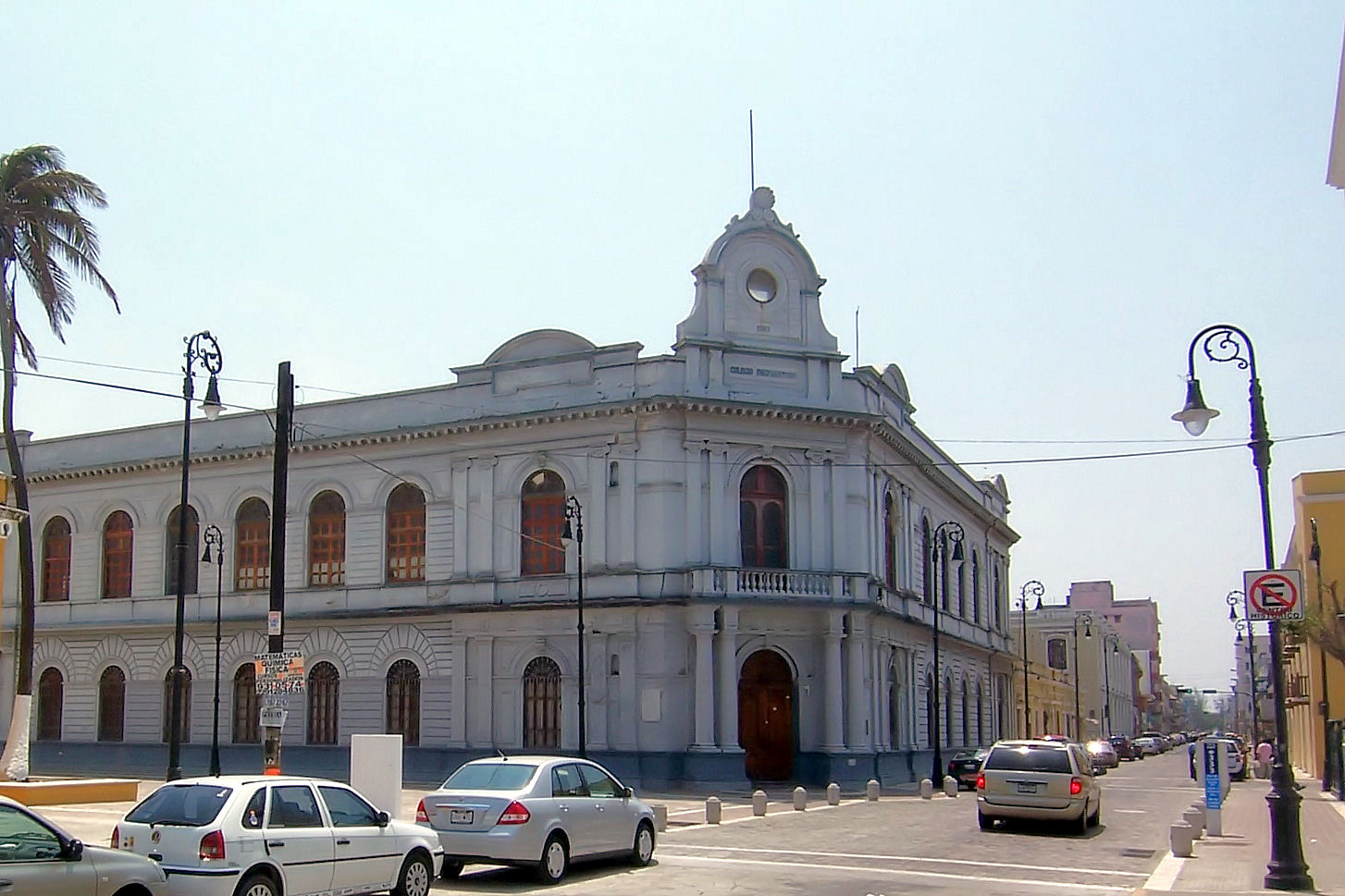 Veracruz City, Mexico